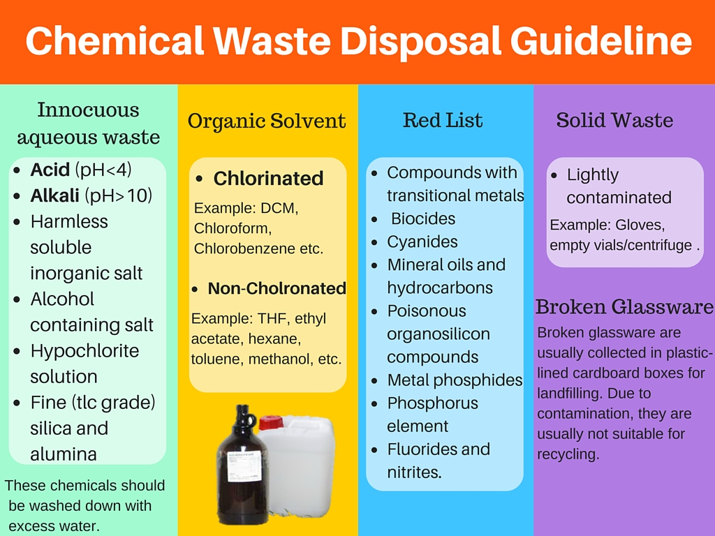 Chemical waste category that should be followed for safe labelling, packaging and disposal of chemical waste.